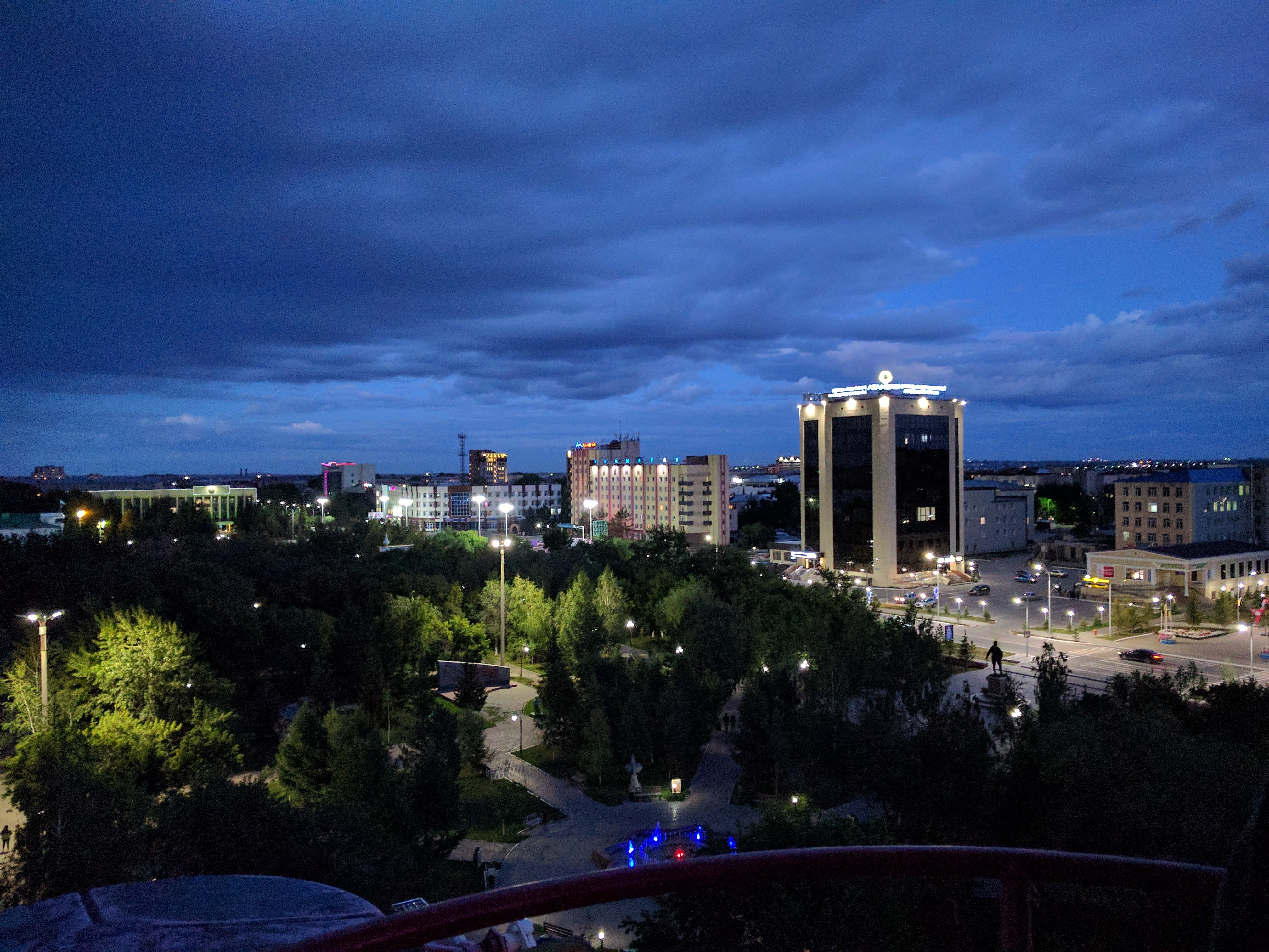 The view from the ferris wheel in central park "Ploshad Nezavisimosti" in Kokshetau, Kazakhstan.